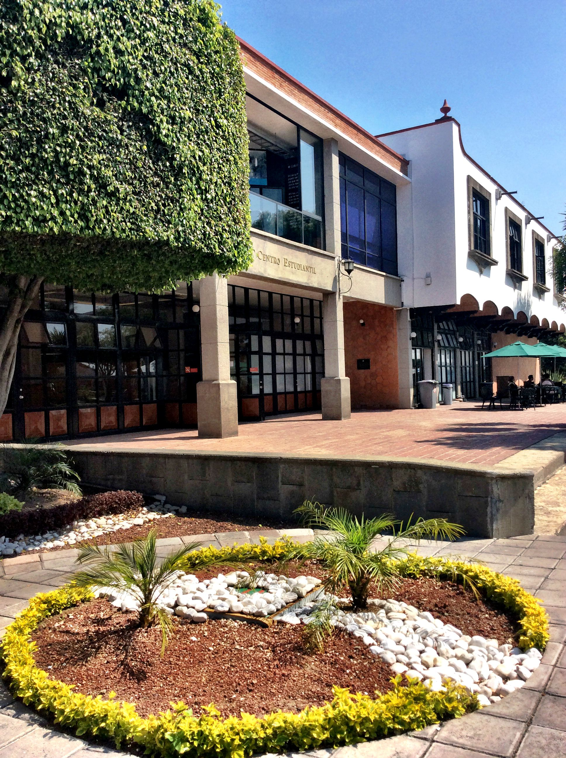 Fotografías de la autoría de la Universidad de las Américas Puebla para uso de la comunidad.